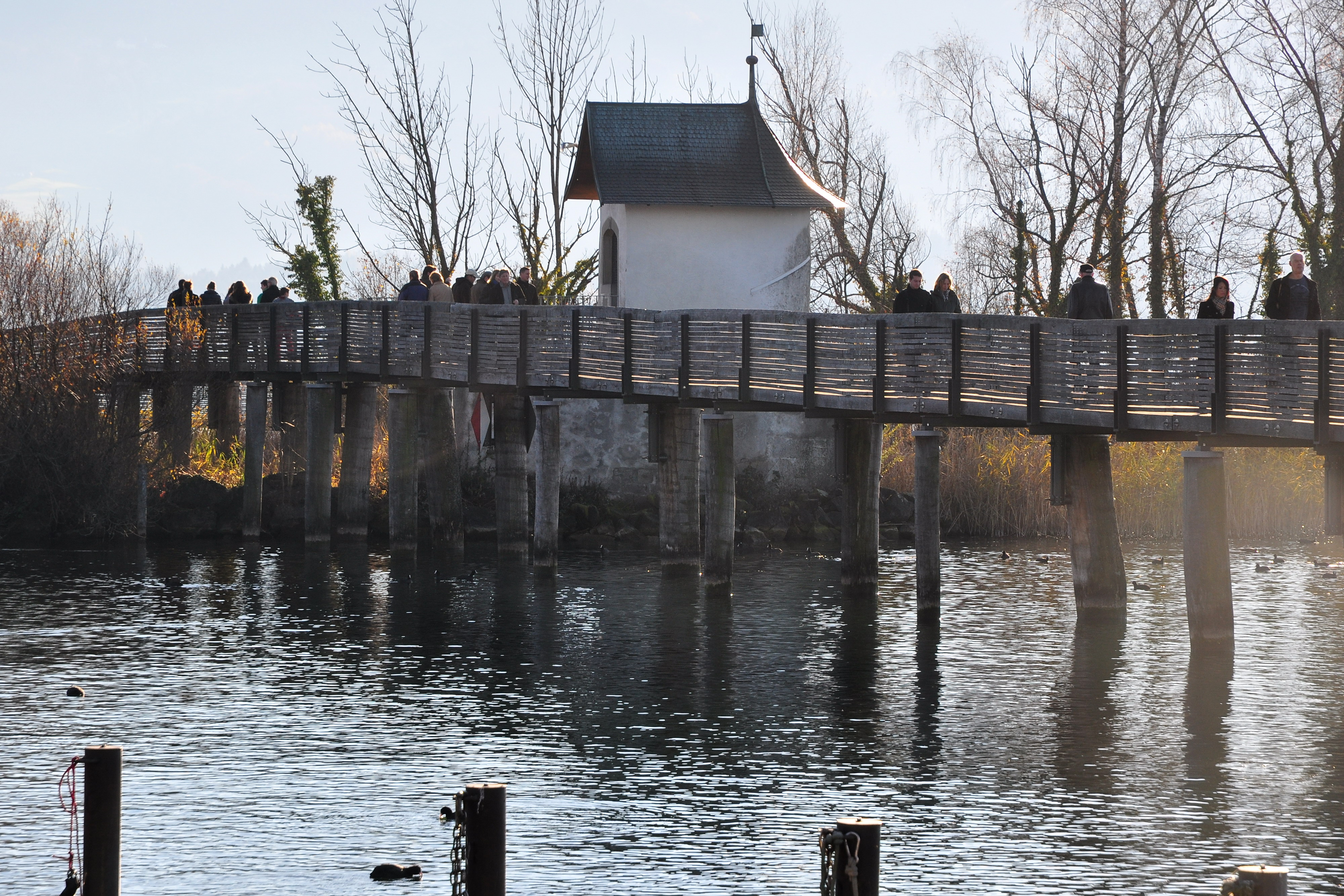 «Heilig Hüsli» chapel in Rapperswil (Switzerland) as seen from the wooden bridge between Rapperswil and Hurden, crossing Obersee (upper Lake Zurich).